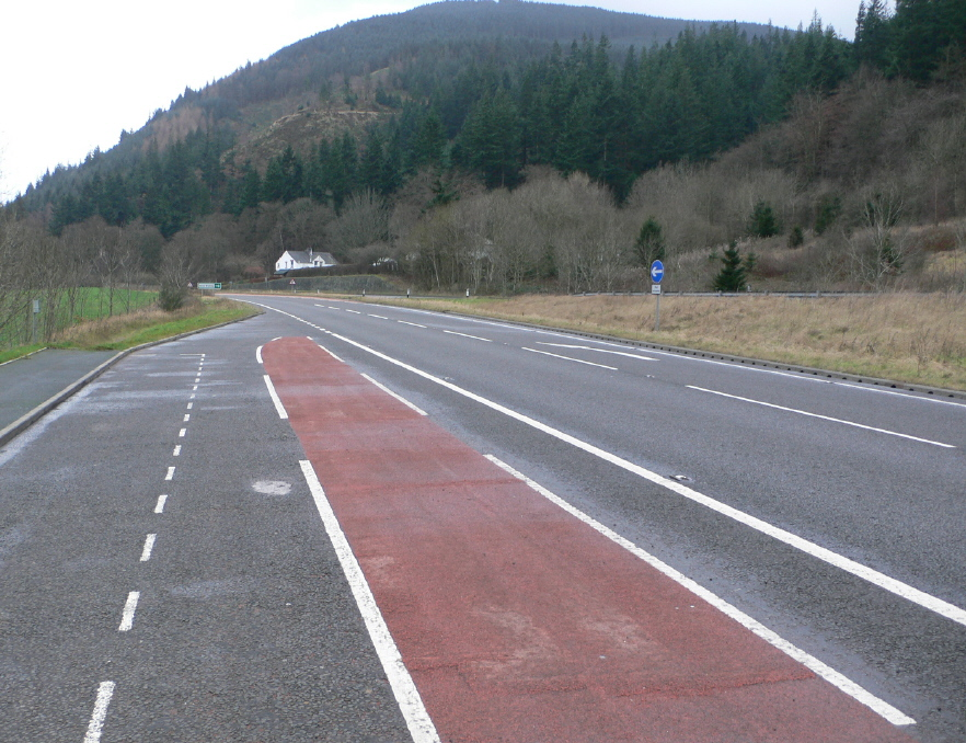 A66 in Cumbria, my image, Dec 2005